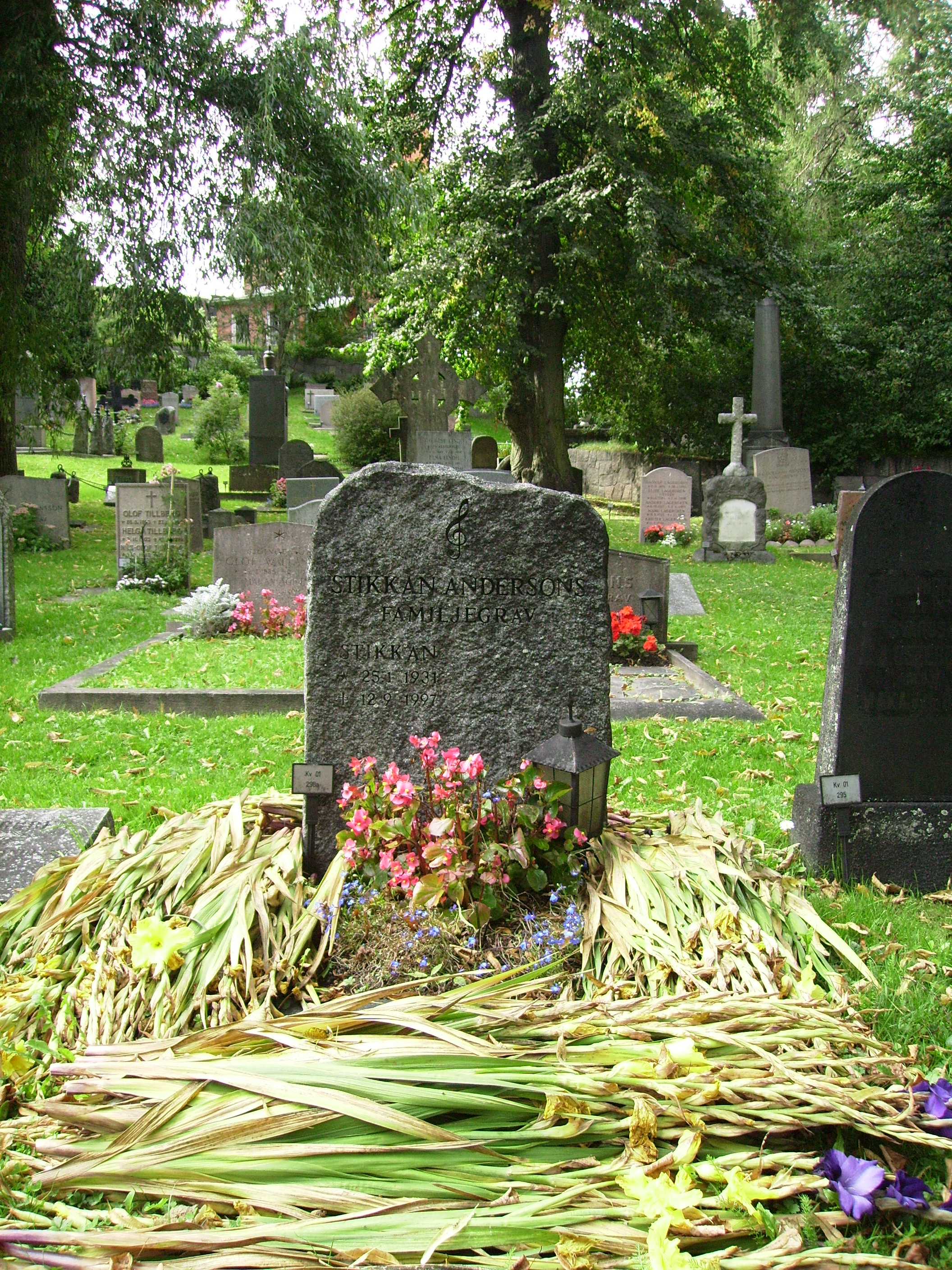 Picture of Stikkan Andersson's grave at Galärvarvskyrkogården in Stockholm